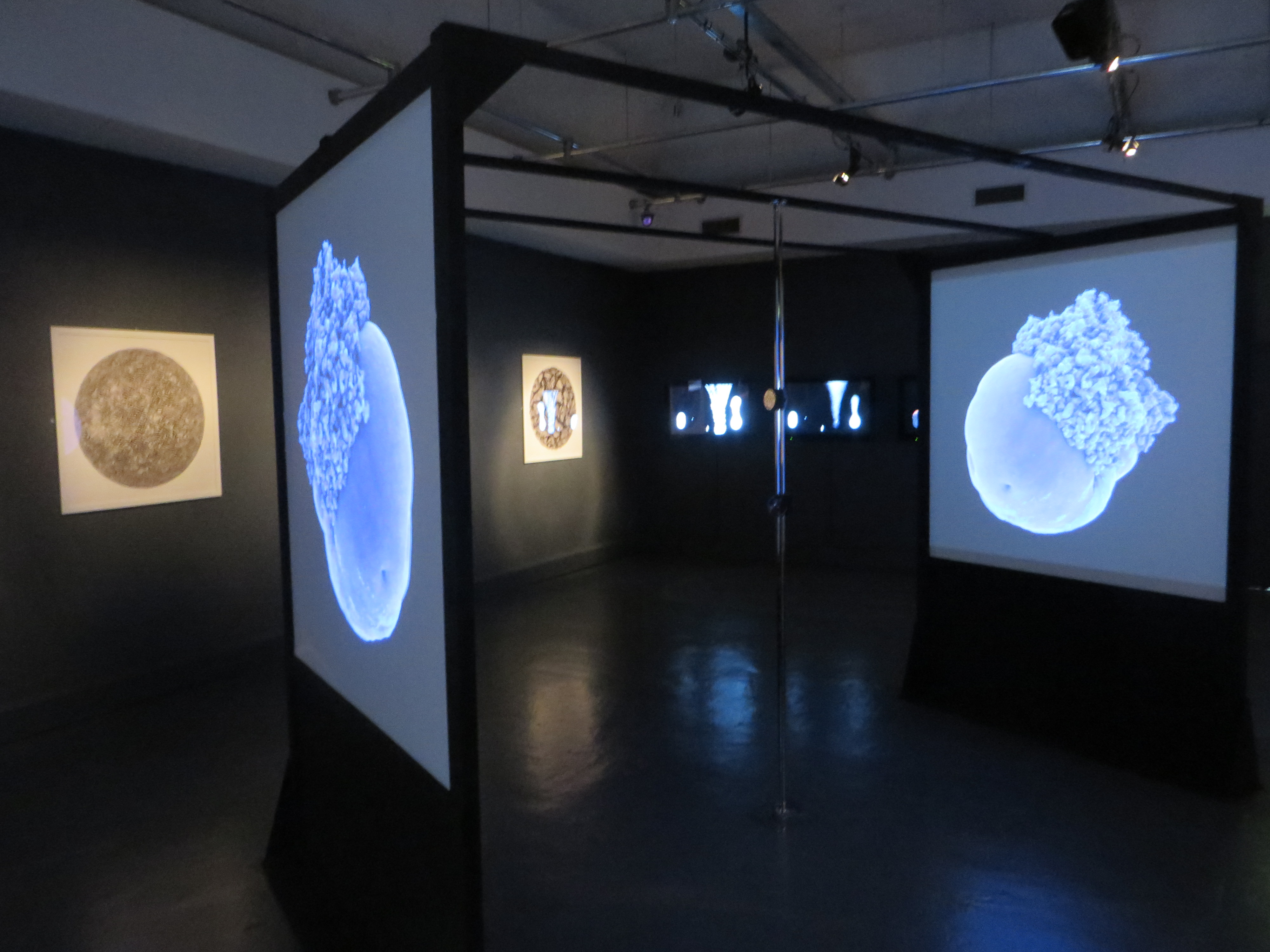 Morphogenic digital art solo exhibition by Andy Lomas at Watermans Arts Centre, west London, England, 2016.